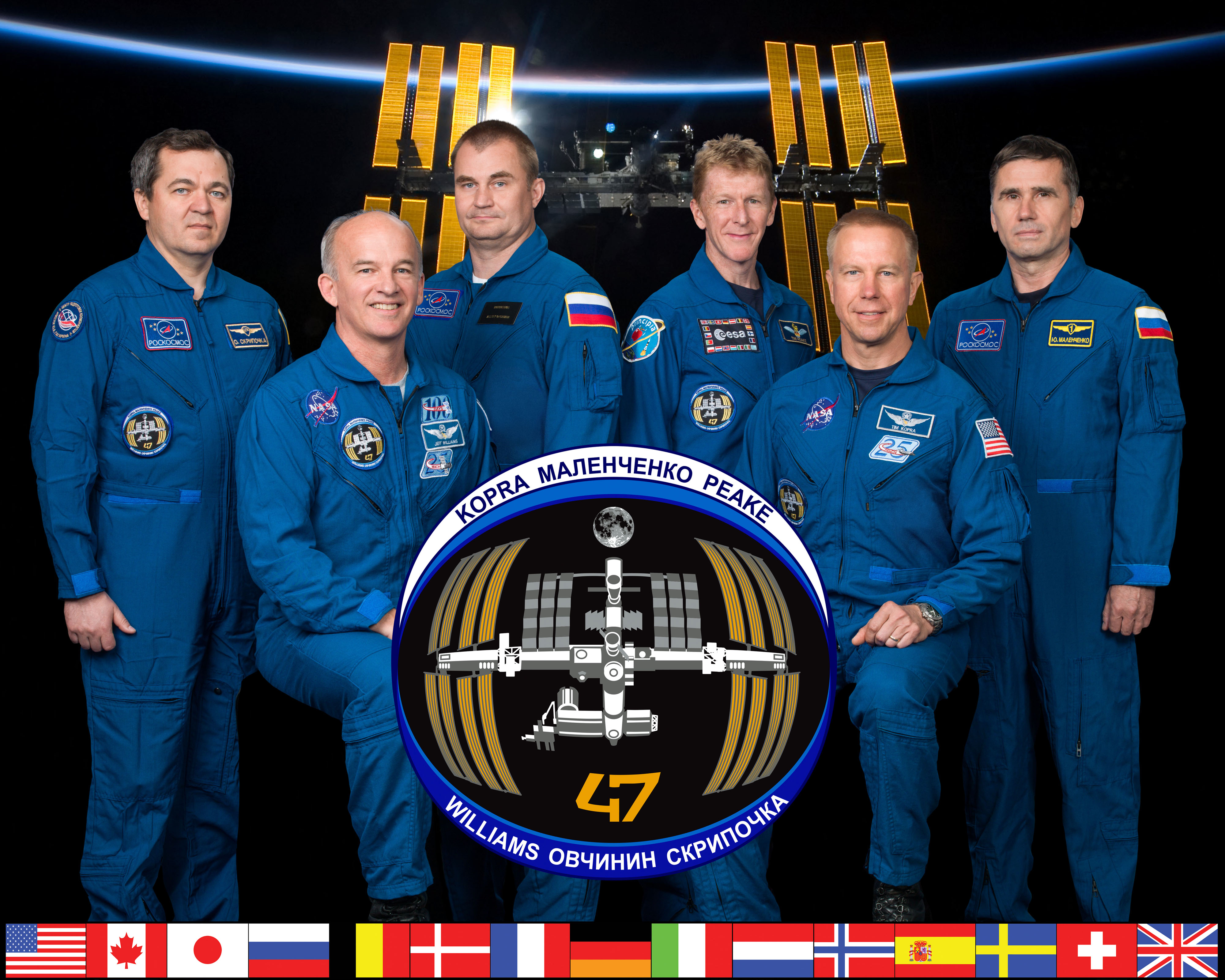 Official Expedition 47 crew portrait with 45S crew (Yuri Malenchenko/Tim Kopra/Tim Peake) and the 46S crew (Jeff Williams, Oleg Skripochka, Aleksei Ovchinin)